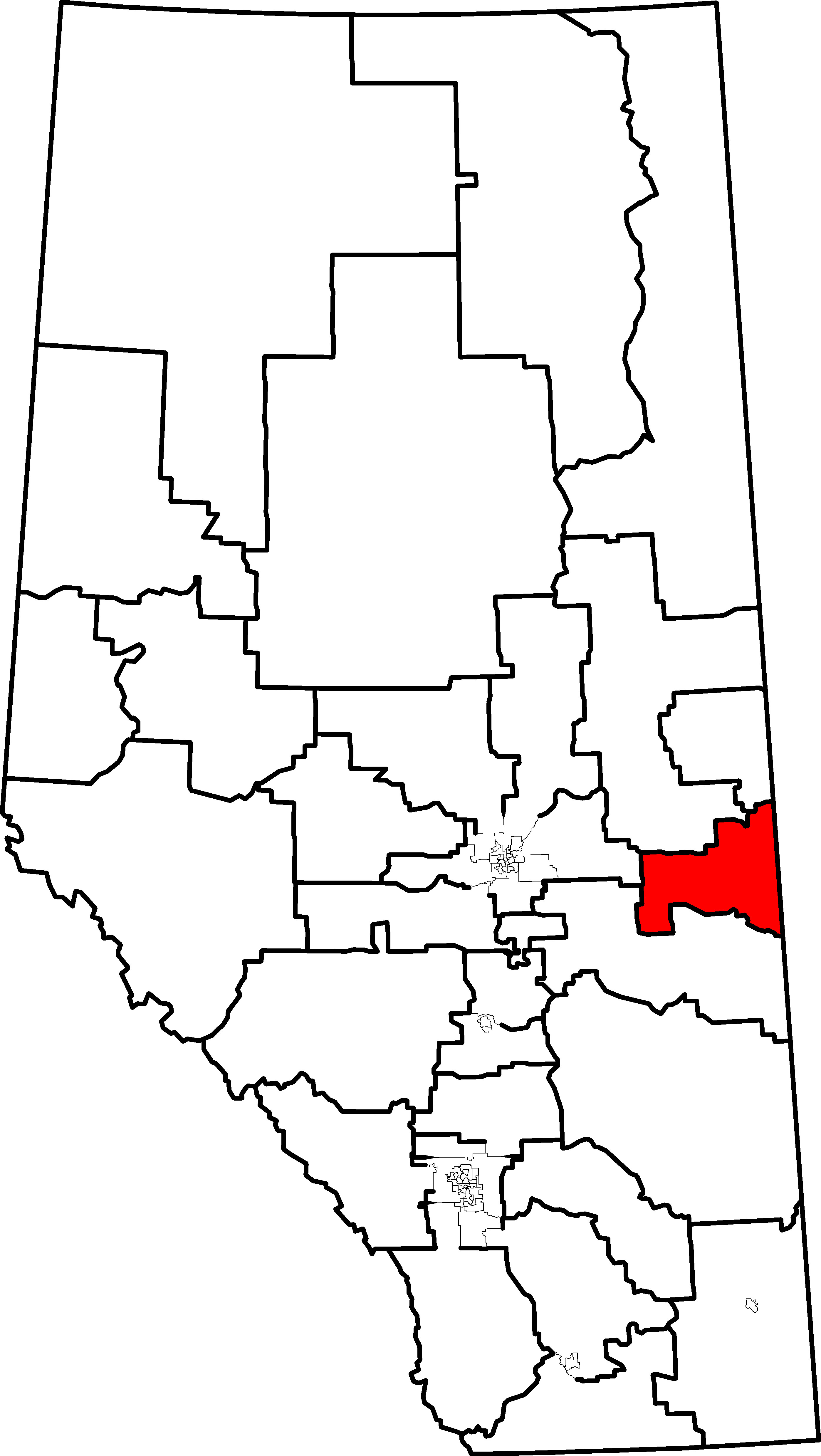 A map of the Alberta provincial electoral districts, effective 2010. Vermilion-Lloydminster is highlighted in red.